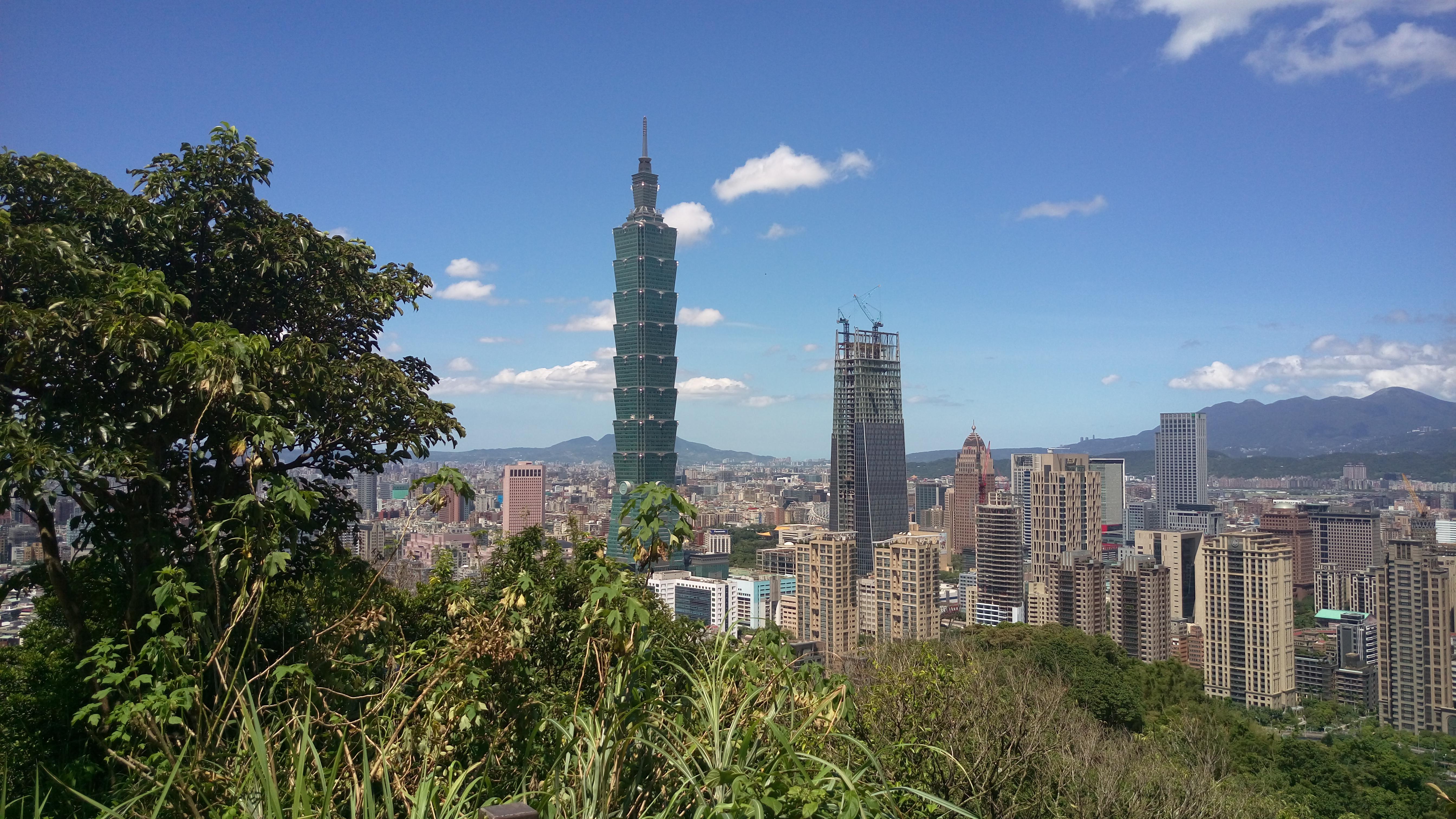 View of Taipei, Taiwan CBD Skyline from Mt. Elephant photographed in September 2016